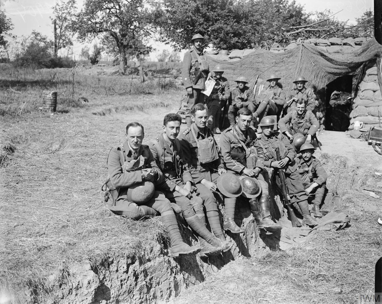 The German Spring Offensive, March-july 1918 Headquarters and Headquarters staff of the 2nd Battalion, King's Own Scottish Borderers, near Arrewage, 4 July 1918.